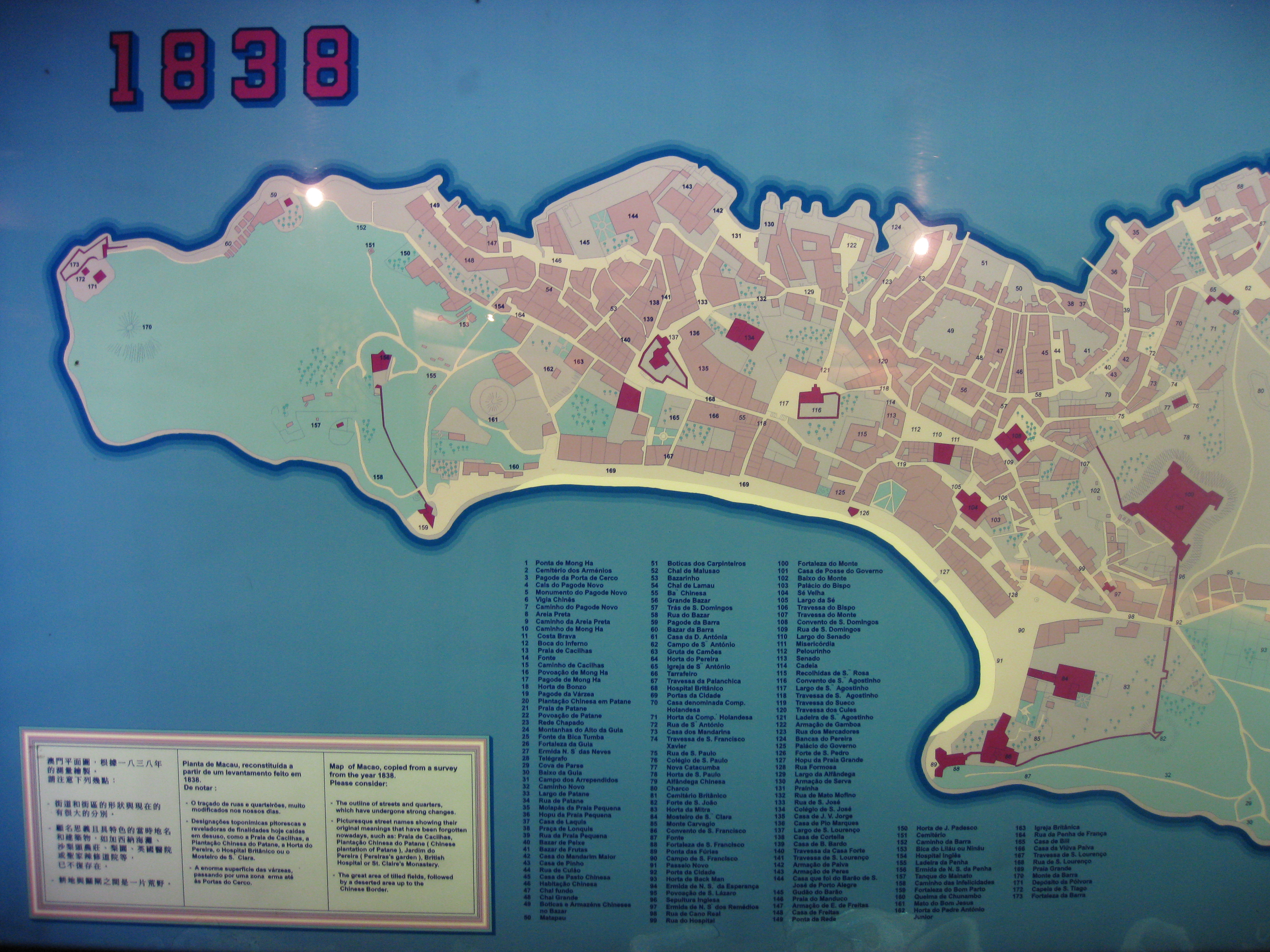 Museum of Macau - Historical maps